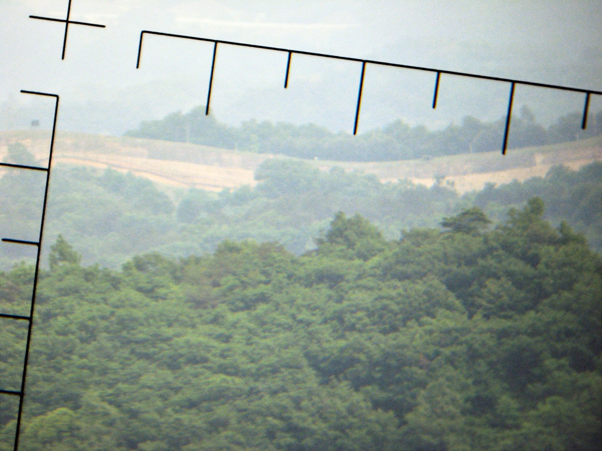 The Korean Wall in the Demilitarized Zone between the Democratic People's Republic of Korea (DPRK, or North Korea) and the Republic of Korea (South Korea). It is seen through binoculars placed in an outpost in North Korea. North Korea maintains the wall is a continuous fortified concrete barrier built by South Korea; South Korea and the United States deny the existence of the wall.